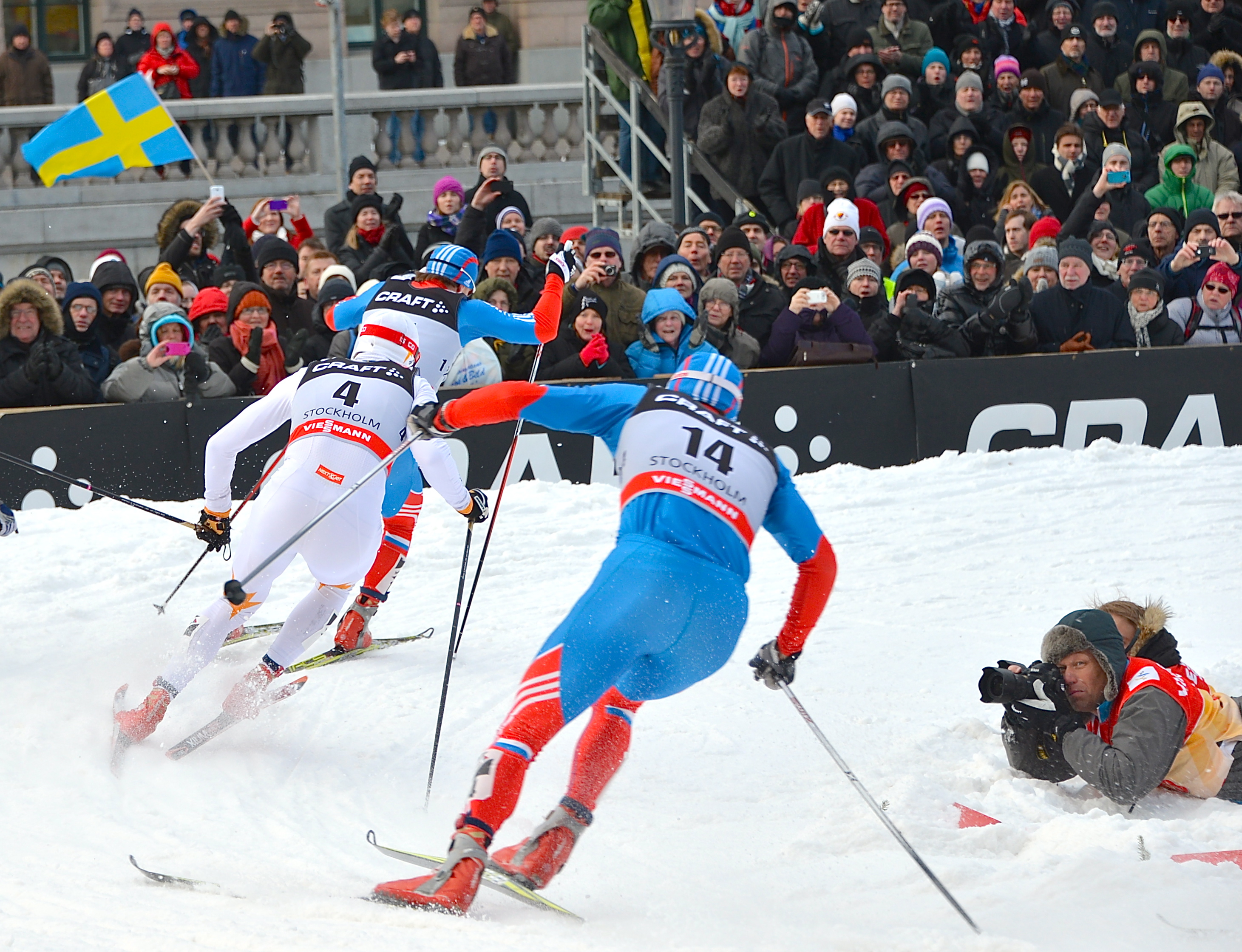 Photographers at Royal Palace Sprint in Stockholm March 20, 2013